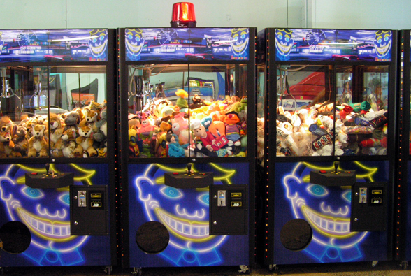 On The Boardwalk, Asbury Park, New Jersey June 4, 2005